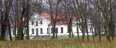 Manor of Rudziński family in Pogorzel